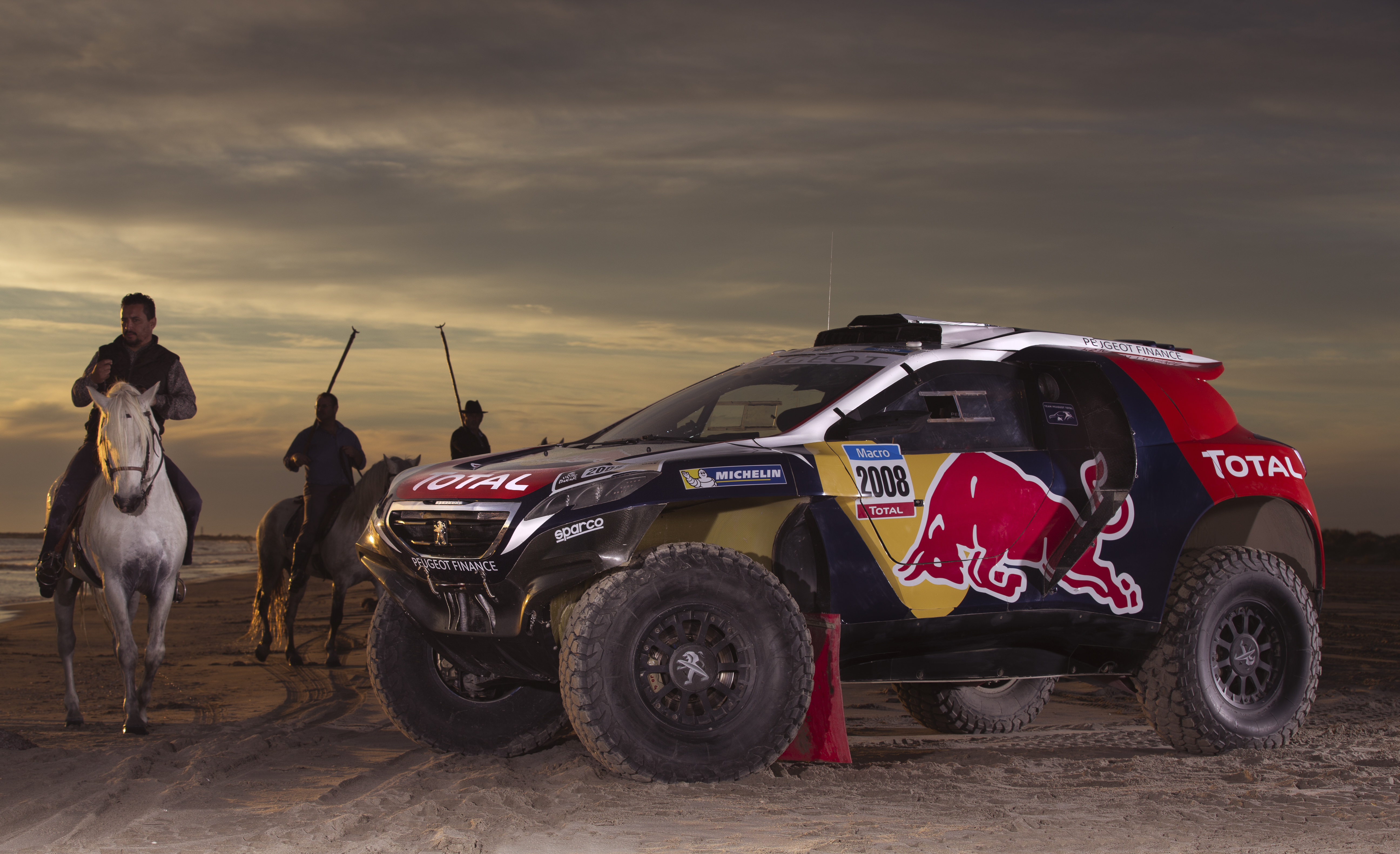 The Peugeot 2008 DKR. Peugeot's challenger in the 2015 Dakar Rally.